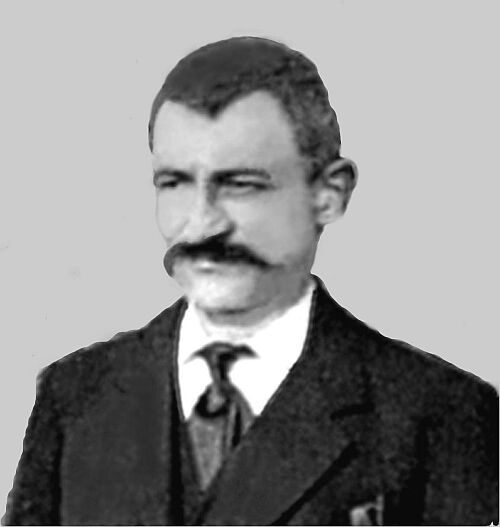 Stephane Javelle, French astronomer